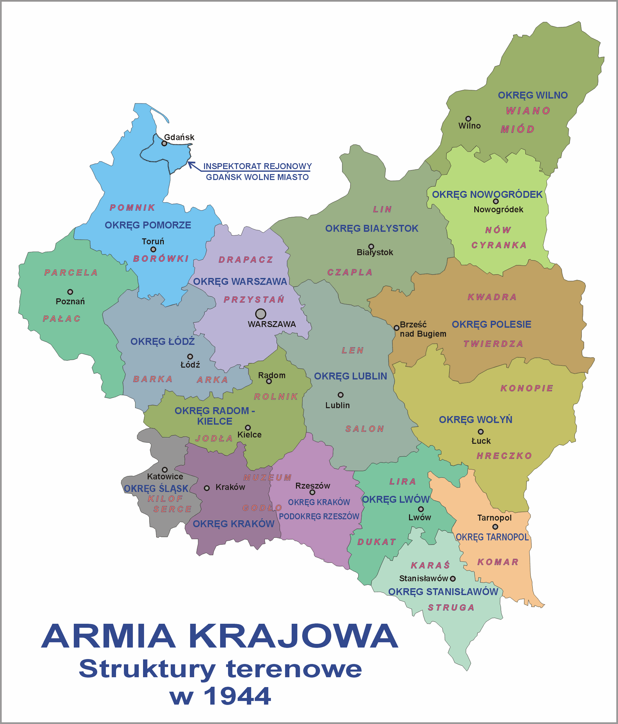 Armia Krajowa - territorial organization in 1944